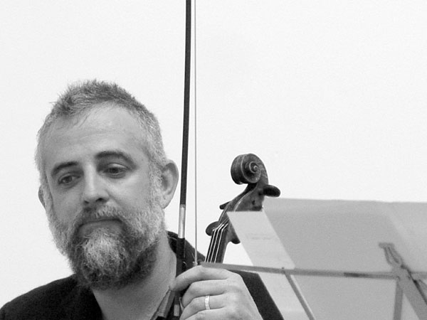 Mat Maneri in Aarhus, Denmark 2011